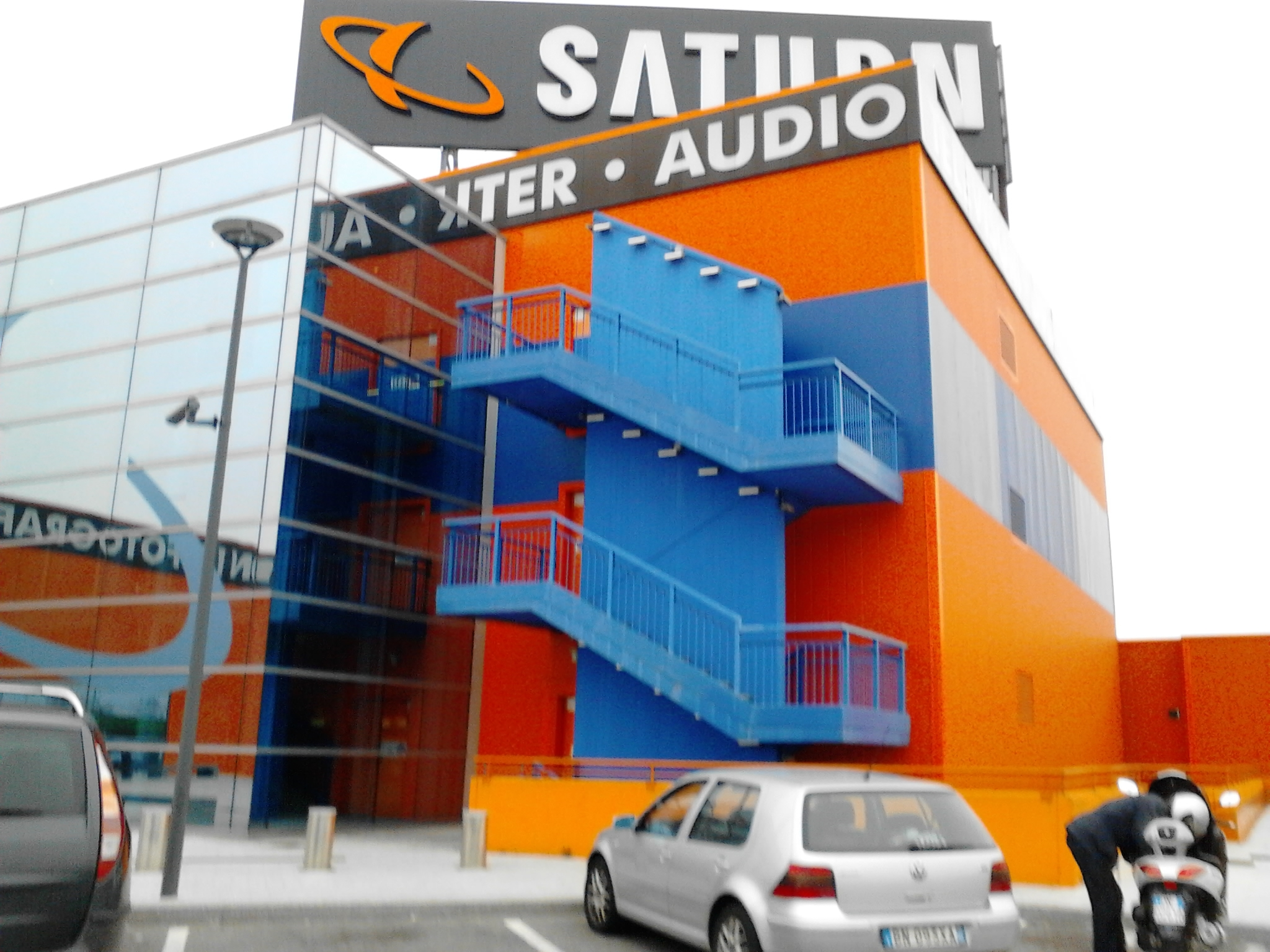 Saturn Shop in Verano Brianza ITALY